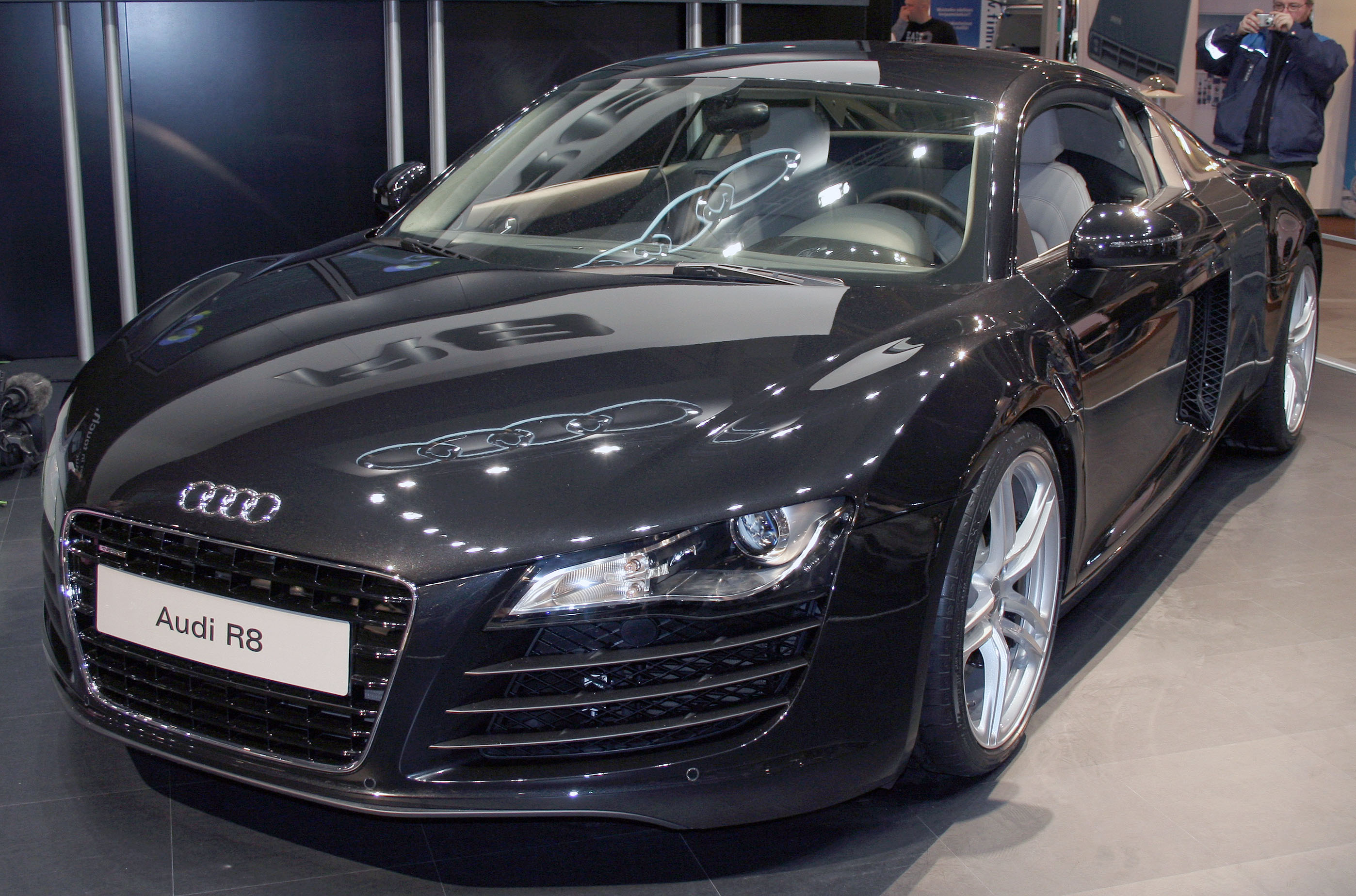 Audi R8 at Helsinki Motor Show 2006